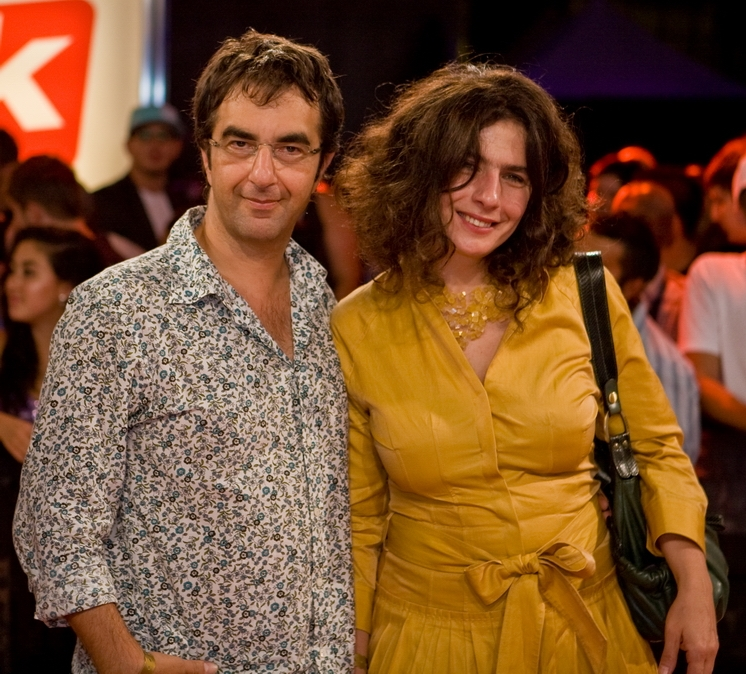 Canadian director Atom Egoyan and his actress wife Arsinée Khanjian, at the eTalk Festival Party, during the Toronto International Film Festival.